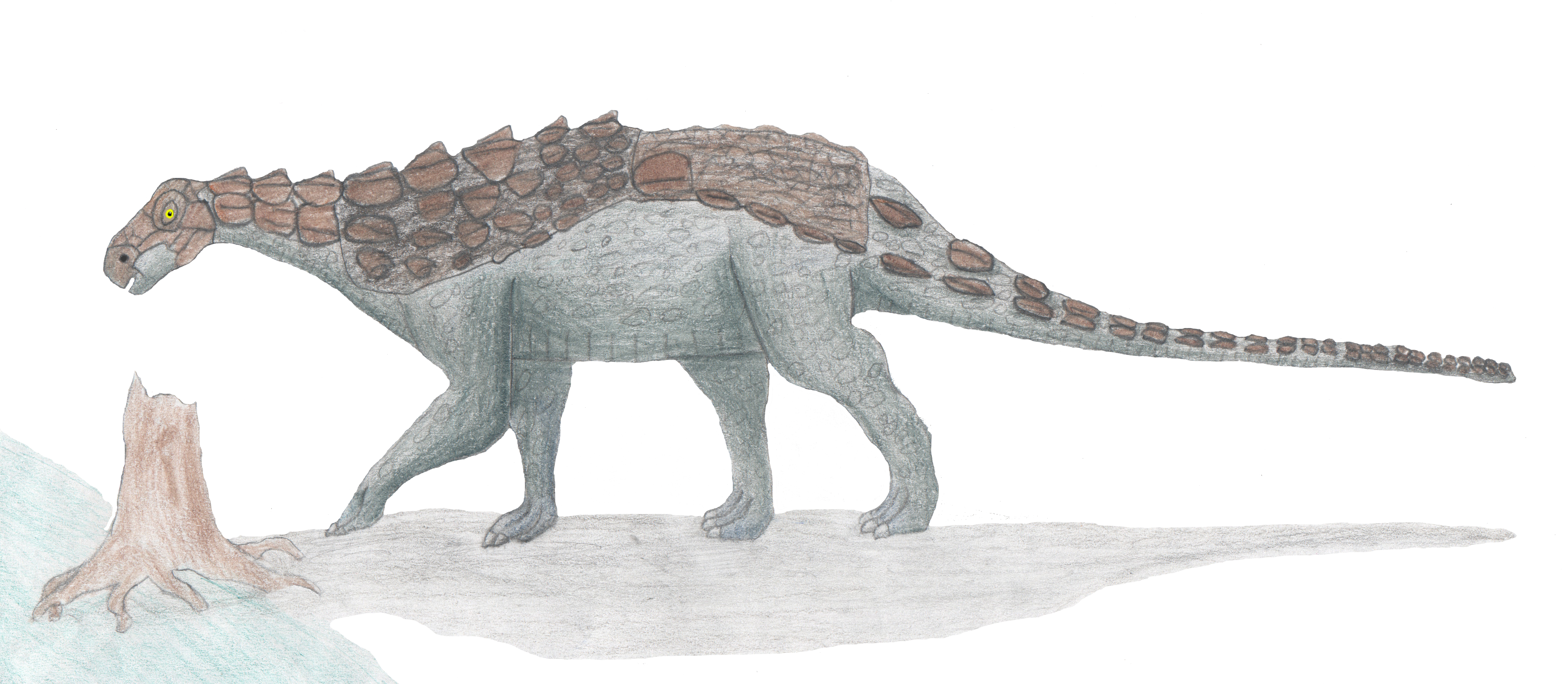 Illustration of Europelta carbonensis from the Early Cretaceous of Europe.